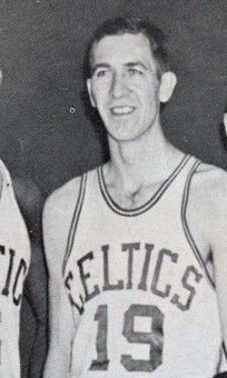 The 1956-57 Boston Celtics that won the first championship for the franchise.